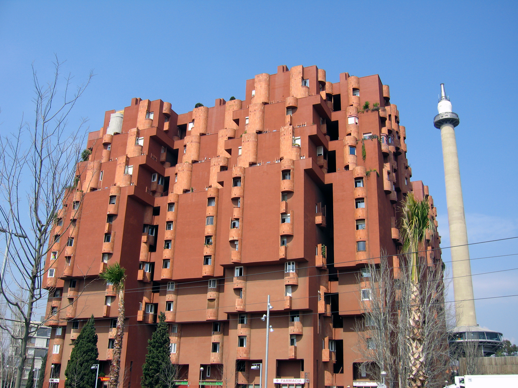 The “Walden-7” building in Sant Just Desvern (Catalonia, Spain).